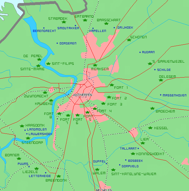 Crop of map of fortresses around Antwerp Geographic limits of the map: N: 51.1313° S:51.0277° W: 4.1788° E: 4.7416° Approximation and decimal conversion